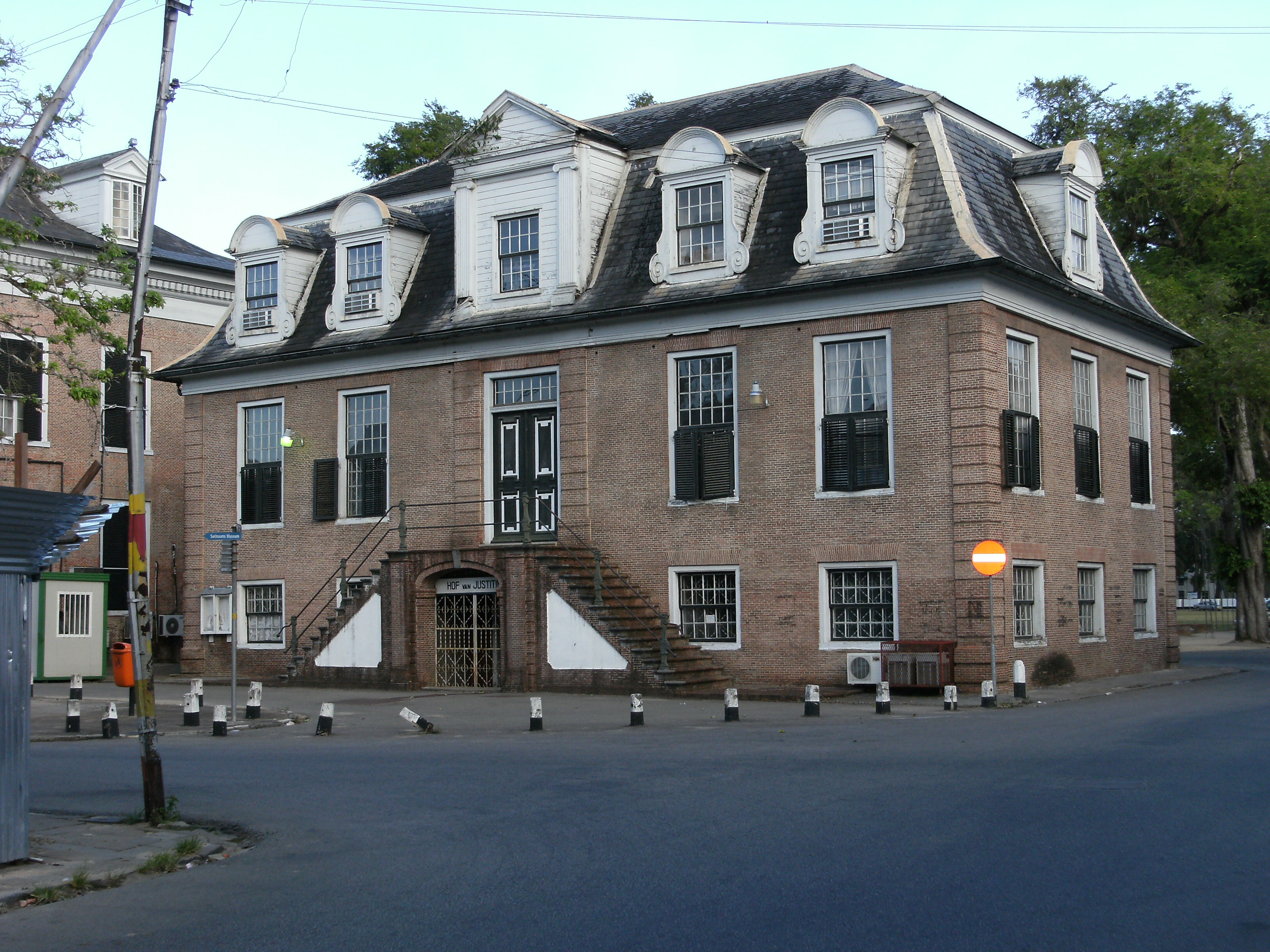 Paramaribo, court of justice.